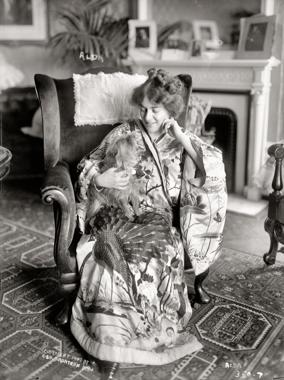 Frances Alda, New Zealand soprano, full-length portrait, seated, facing left, wearing kimono, holding dog